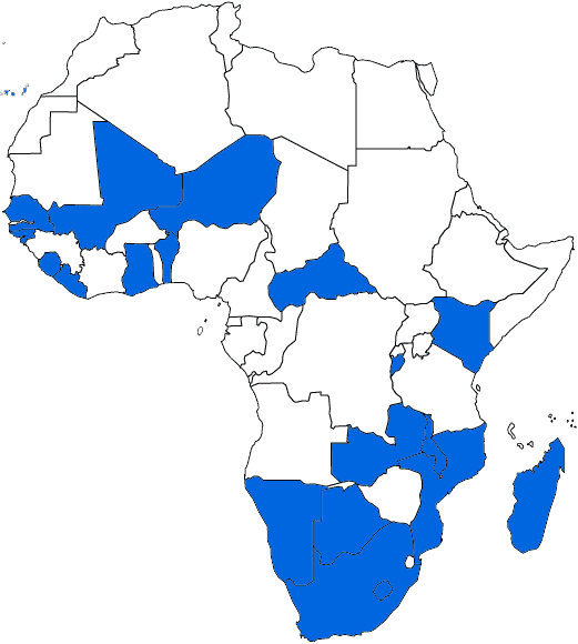 Electoral Democracies (blue) in Africa, accordning to Freedom House, Freedom in the World 2007